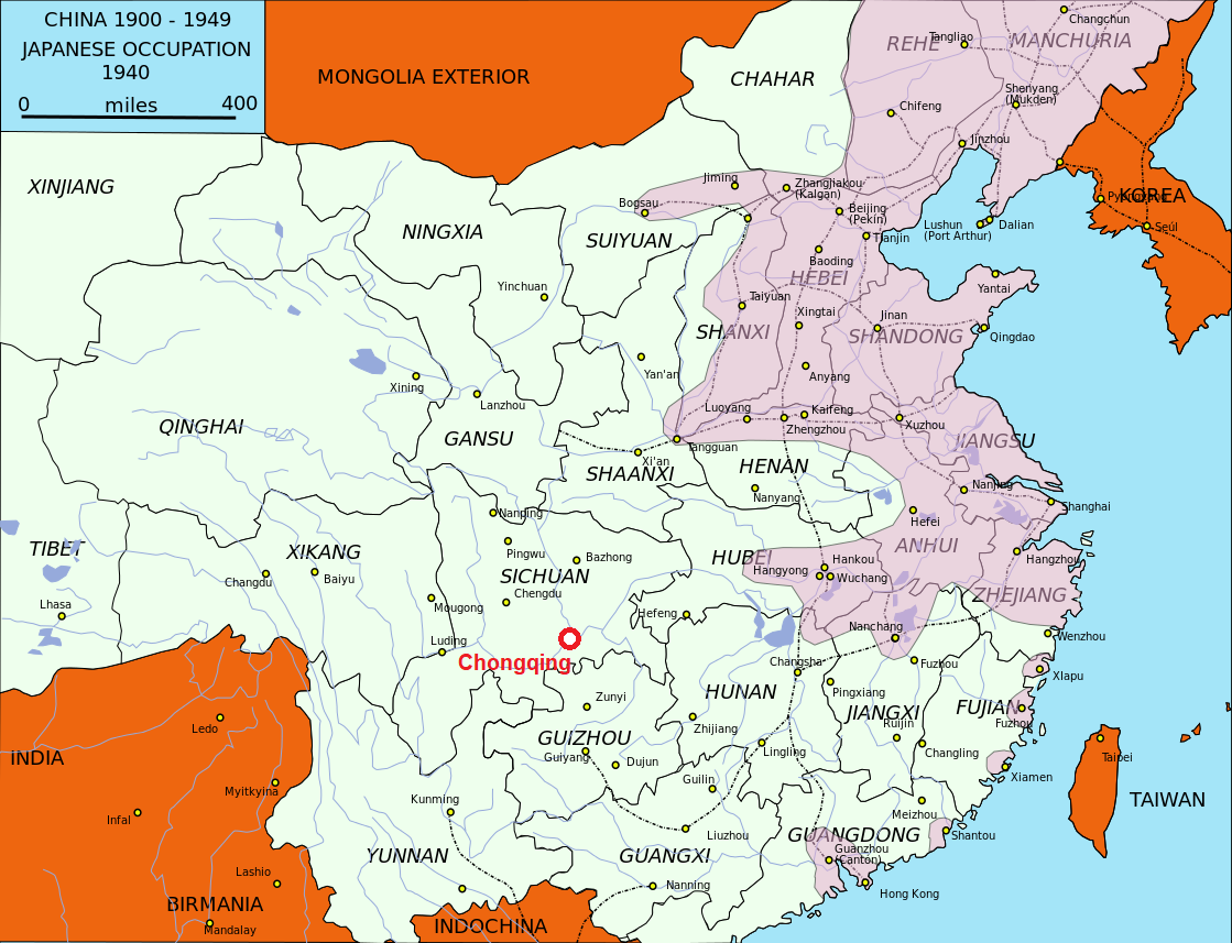 Japanese Occupation of China in 1940. Marked with red circle is Chongqing.